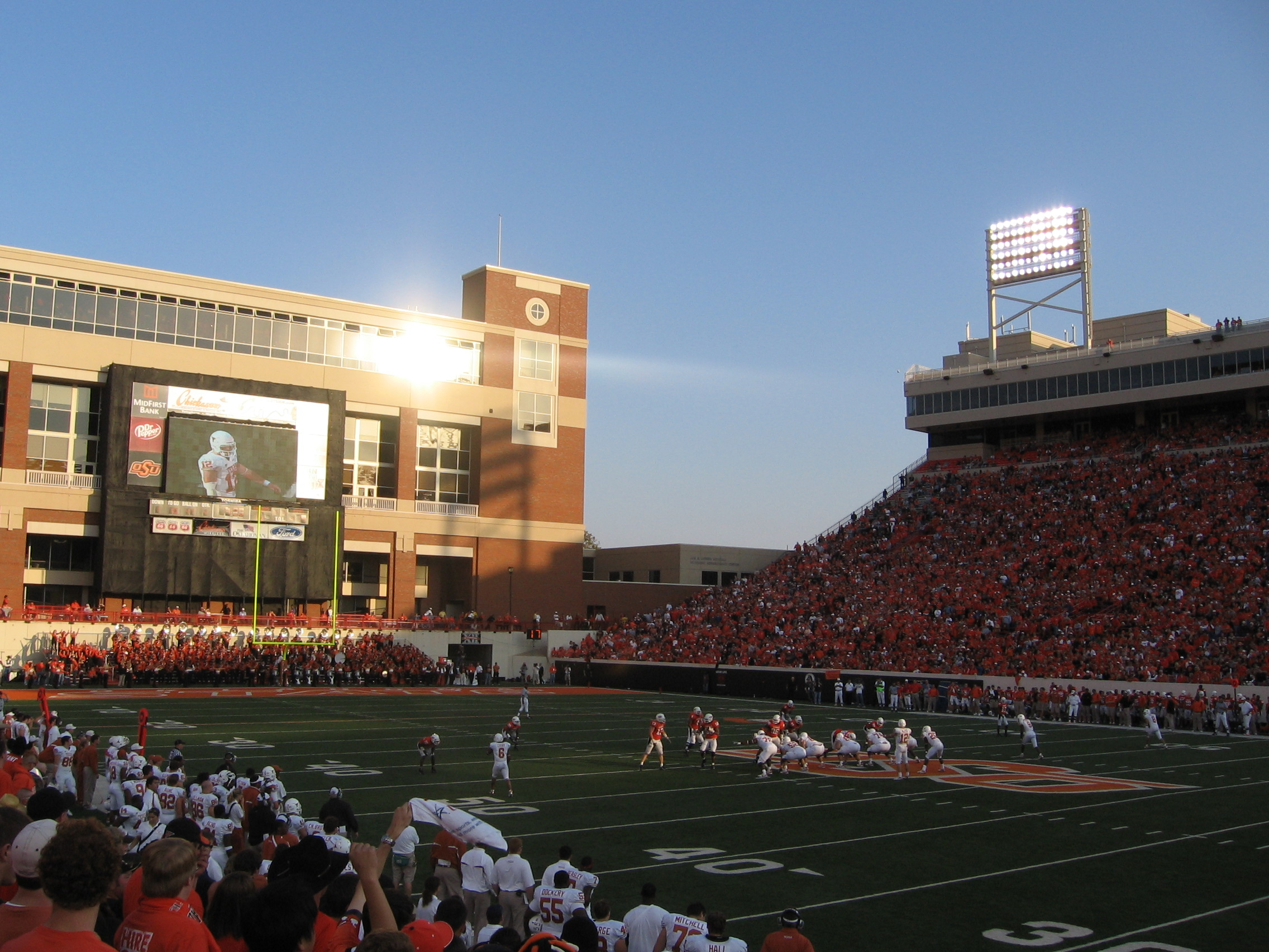 College football: Texas Longhorns vs. Oklahoma State Cowboys at Boone Pickens Stadium, Stillwater, Oklahoma.